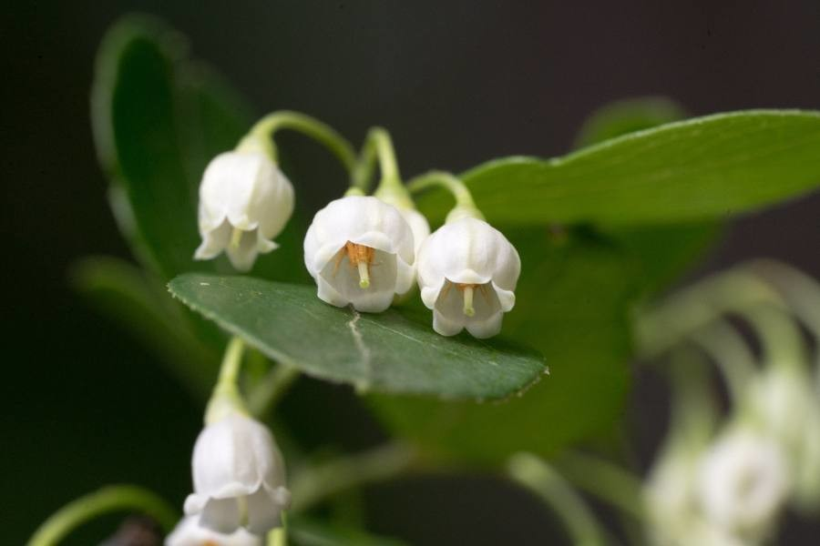 Vaccinium arboreum, Sparkleberry flower